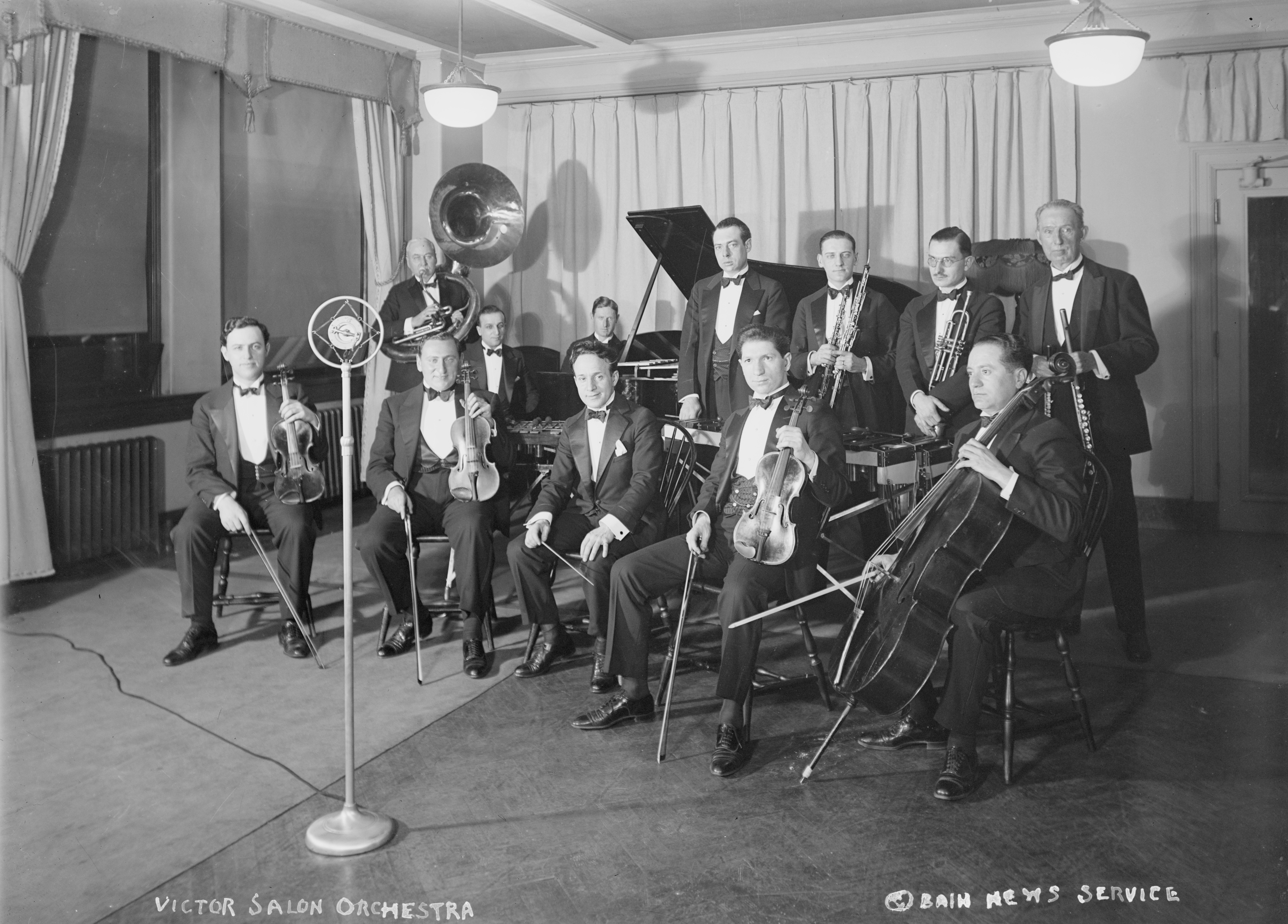 "The Victor Salon Orchestra" (house band for Victor Talking Machine Company records) posed by a microphone in what appears to be a recording or radio studio. Leader Nathaniel Shilkret is seated at center holding a baton. For identification of further musicians, see the discussion page.